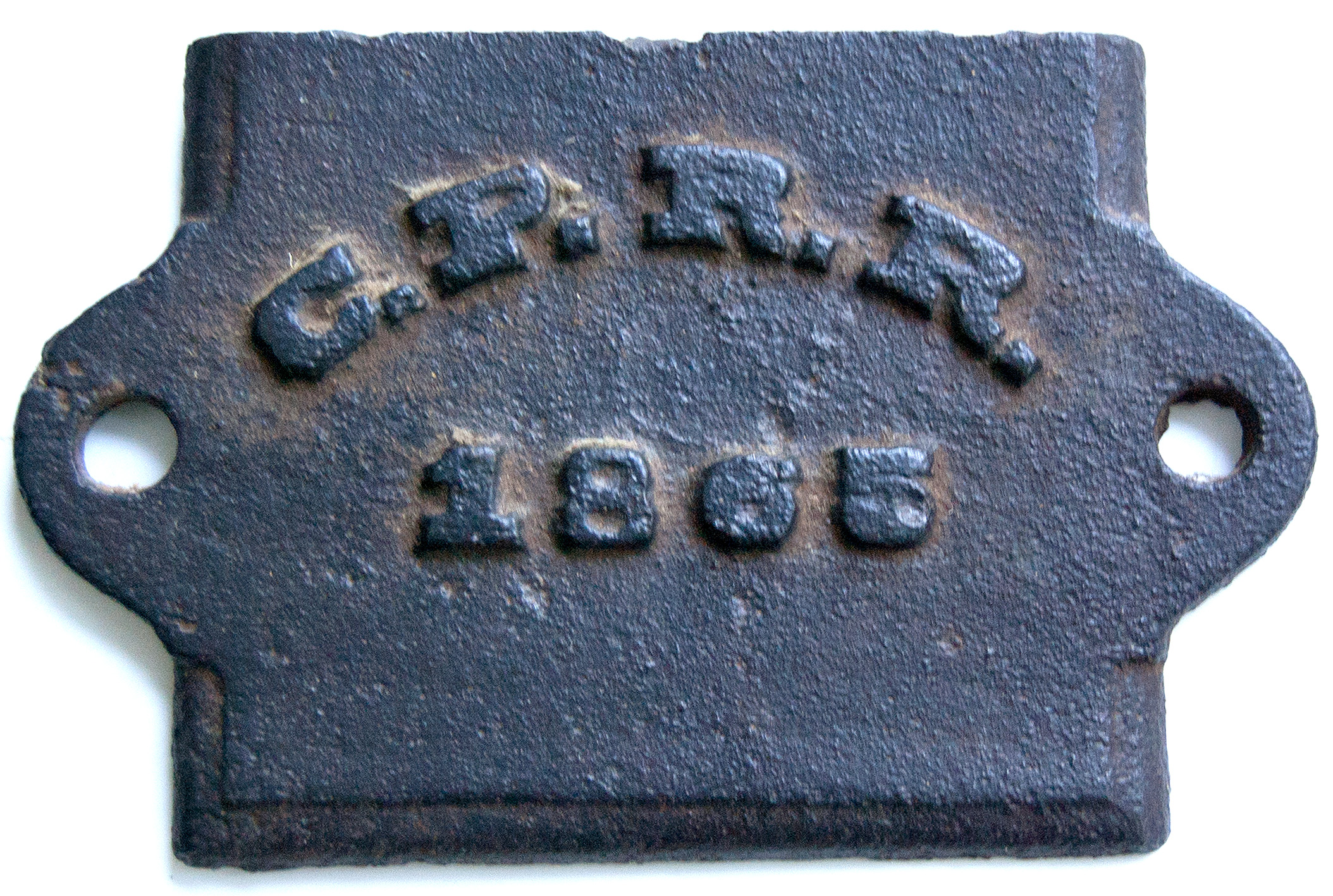 Central Pacific Railroad 1865 sand cast journal box cover